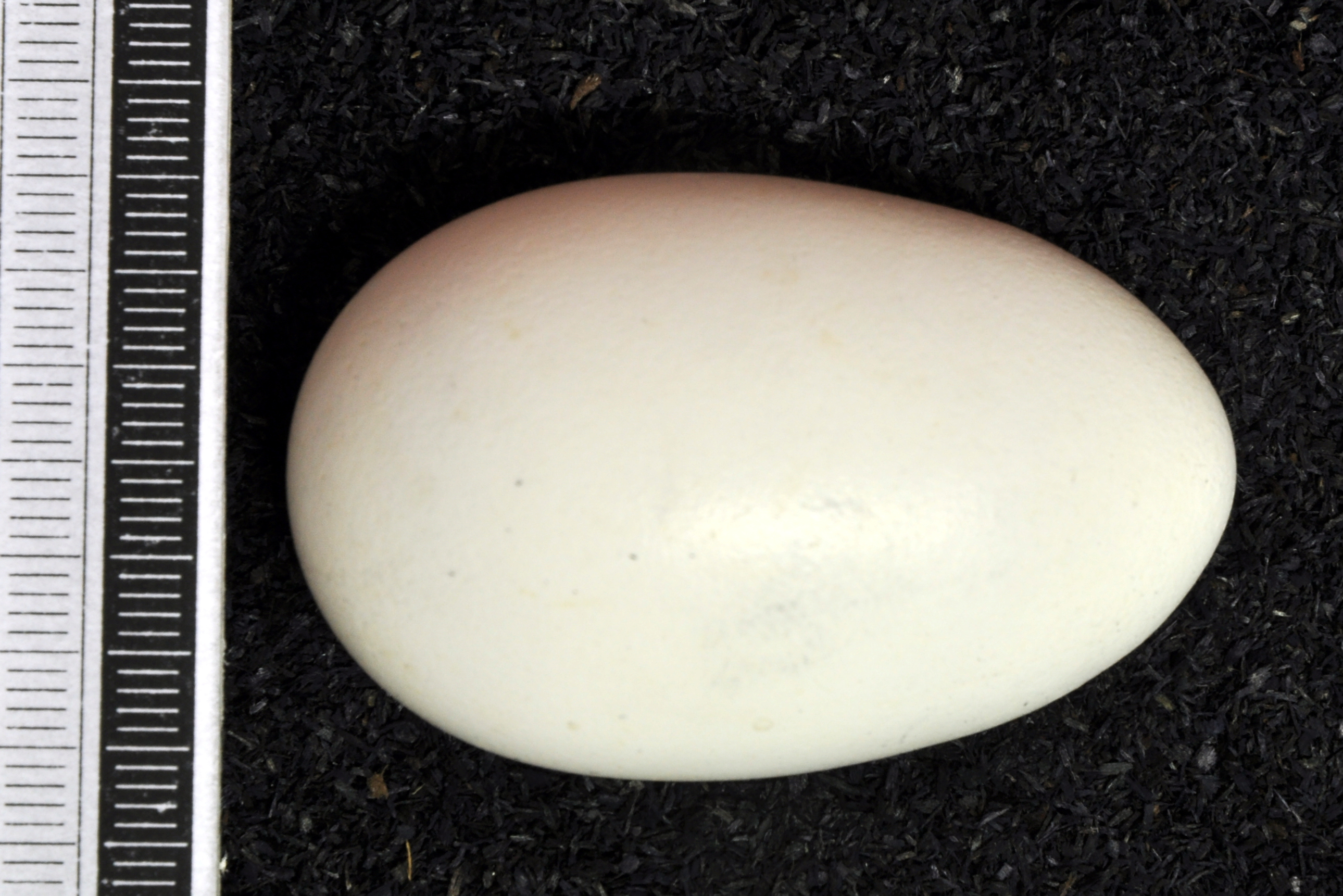 Mealy amazon Amazona farinosa , egg, Coll. Museum Wiesbaden